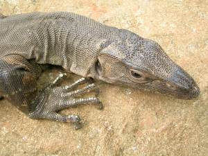 A Varanus bengalensis monitor lizard at Wynaad, India